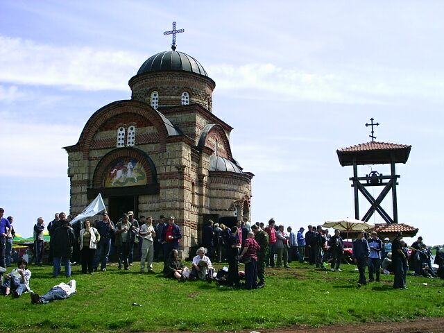 Ravna Gora church with Dragoljub Mihajlović statue, Serbia